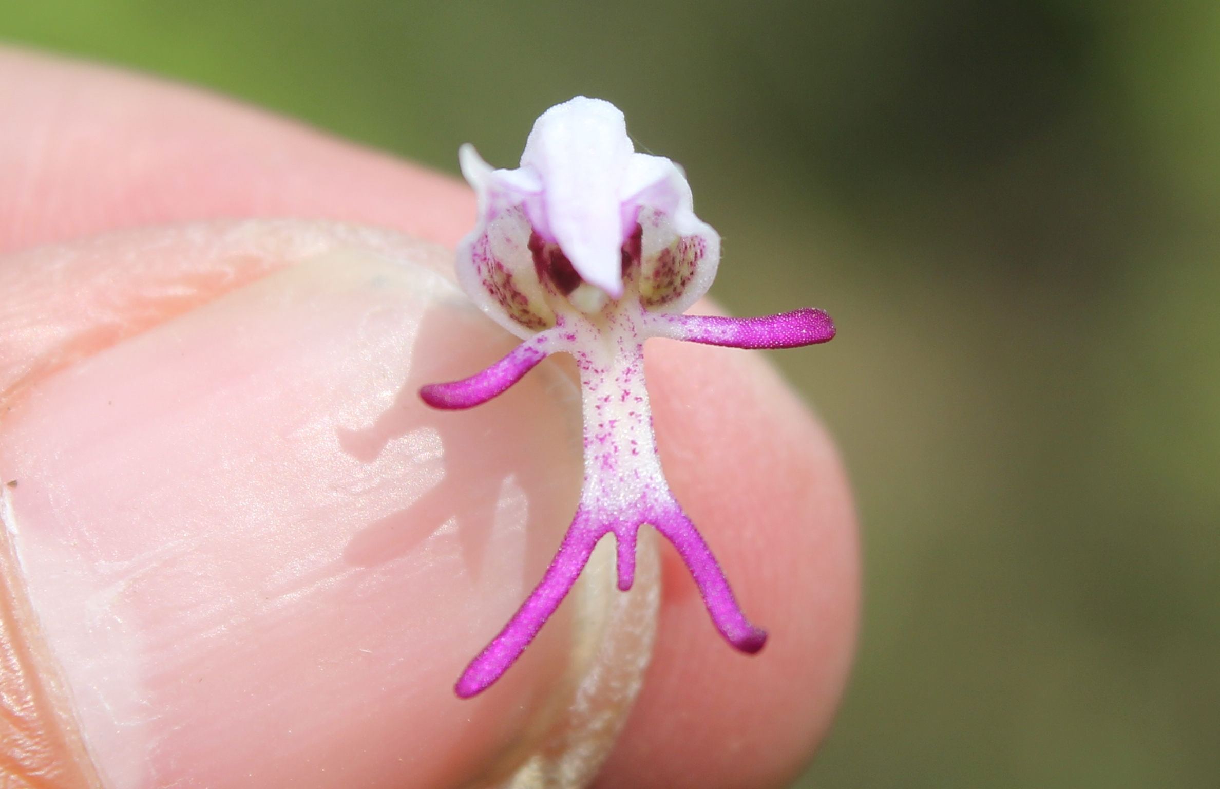 Orchis simia flower